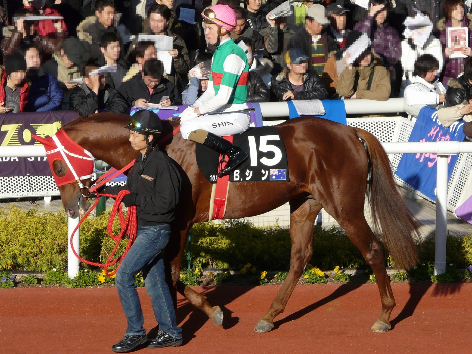 Blake Shinn